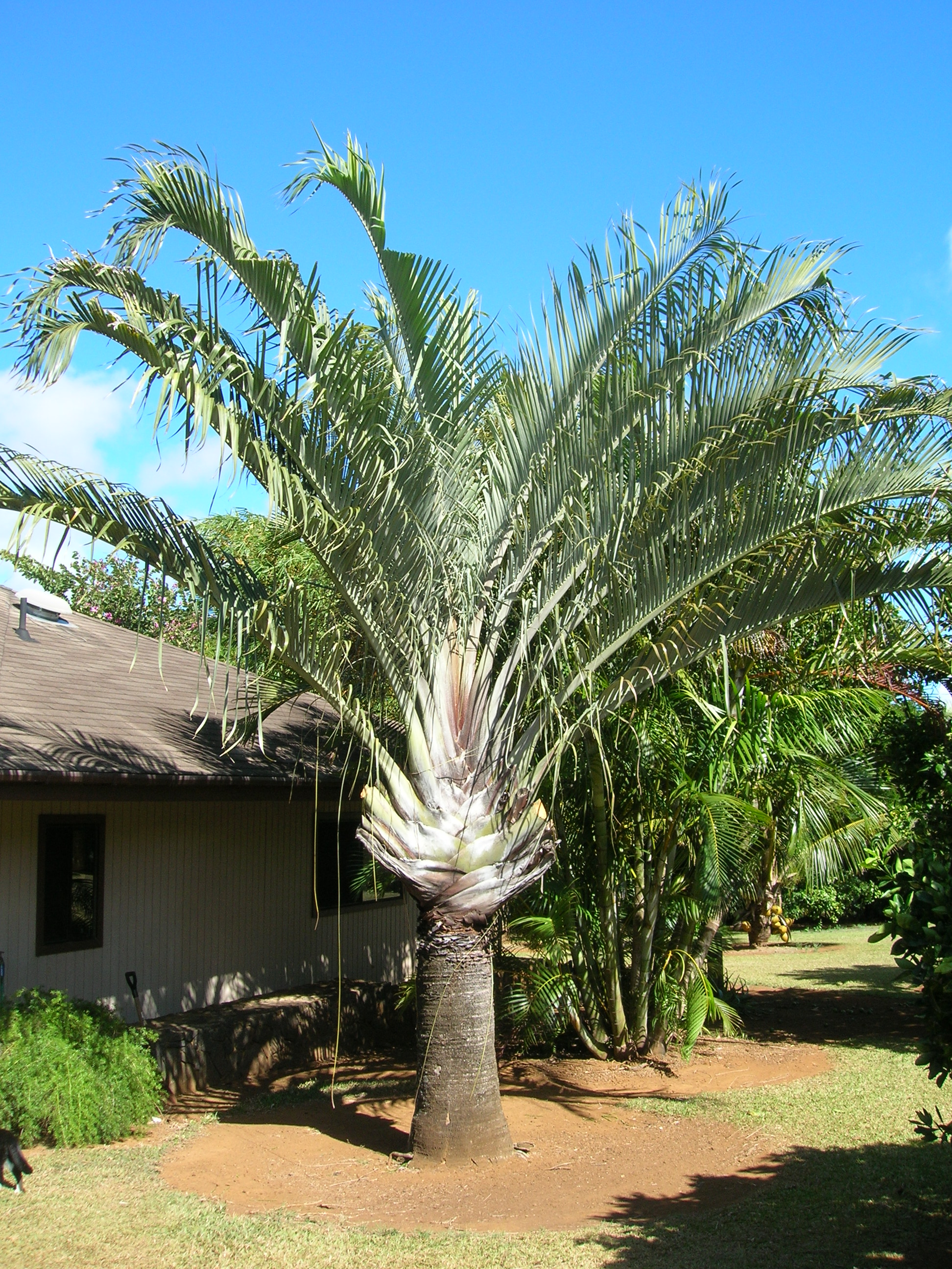 Neodypsis decaryi (habit). Location: Maui, Lilikoi Gulch Haiku